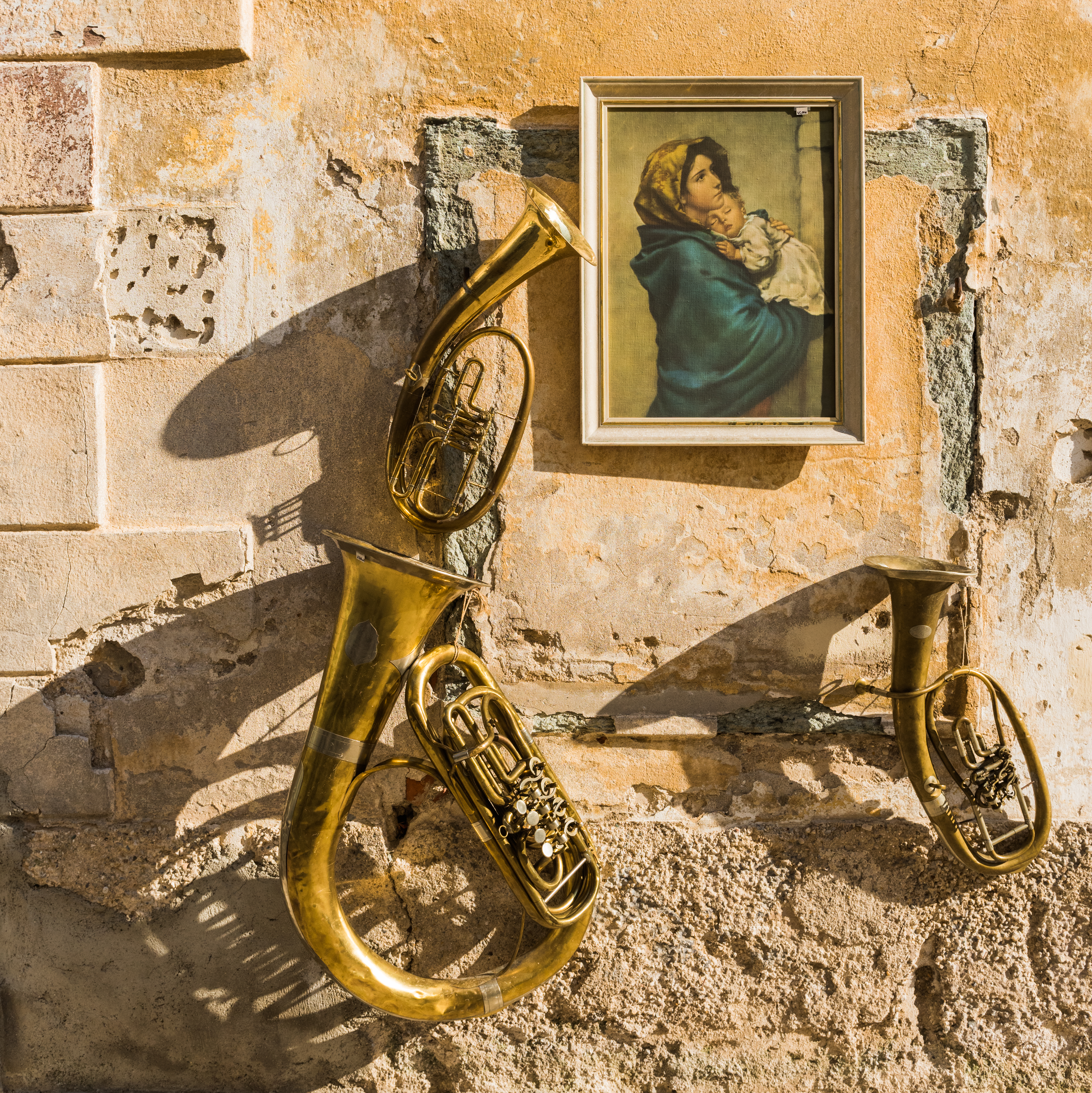 Baritonhorns, exposed on Linhart square in Radovljica, municipality Radovljica, Upper Carniola, Slovenia, EU